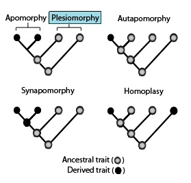 Adapted from Page, Roderic D.M. and Holmes, Edward C. Molecular evolution: a phylogenetic approach. Wiley-Blackwell, 1st edition, 1998.